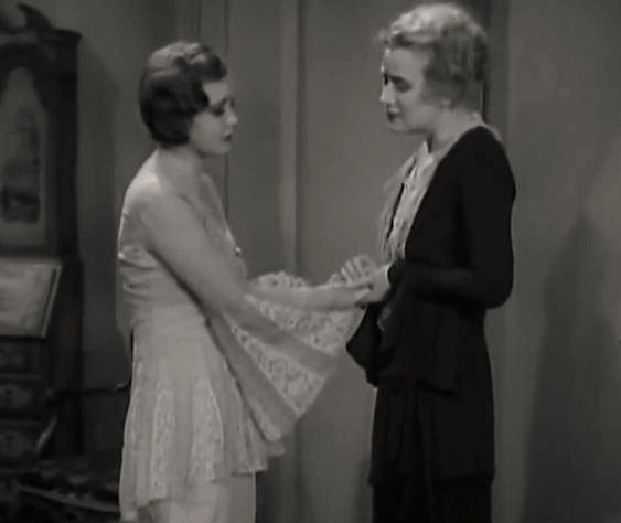 Helen Twelvetrees (left) & Charlotte Walker in Millie - cropped screenshot